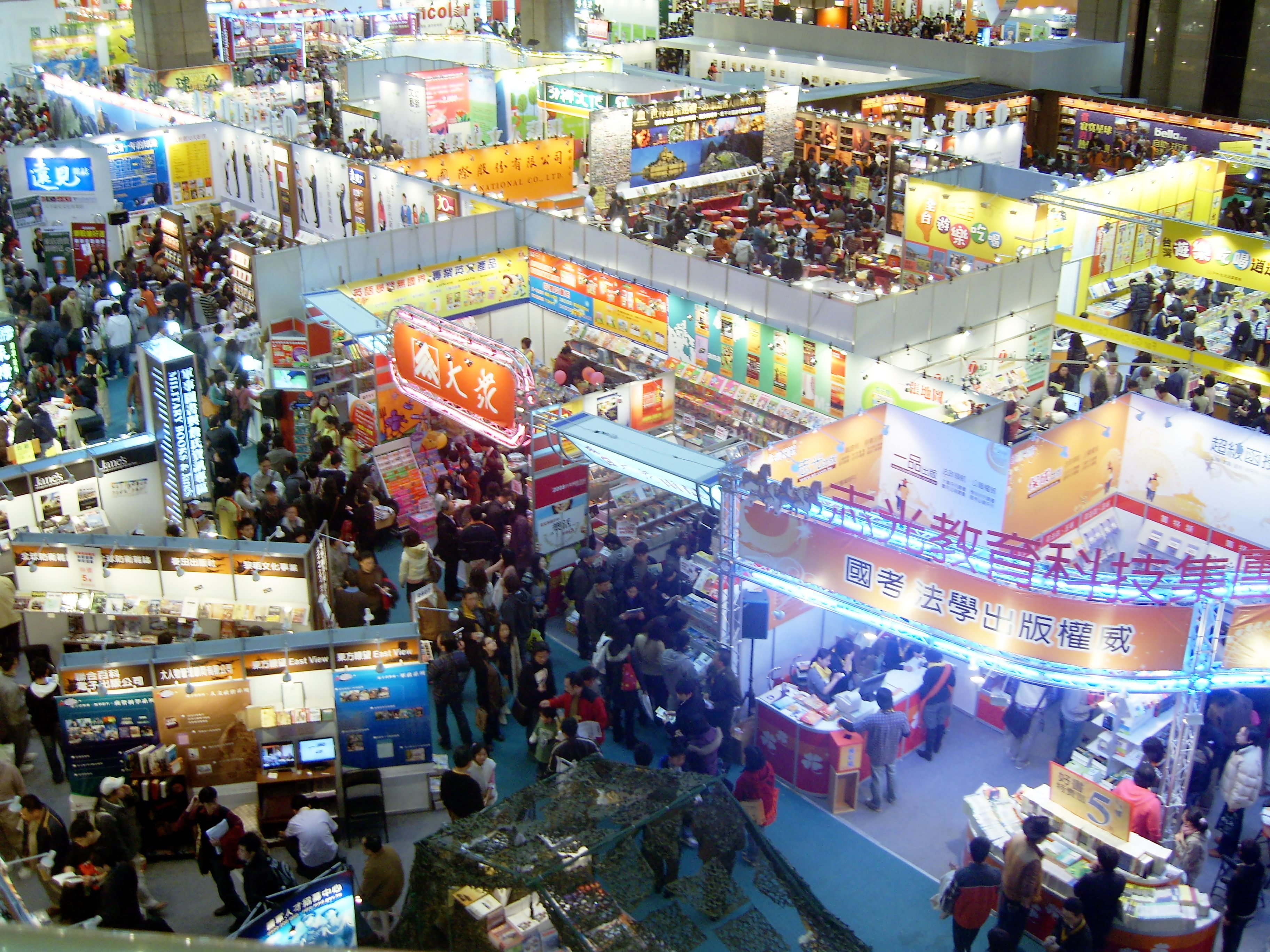 2008 Taipei International Book Exhibition - Hall 1.